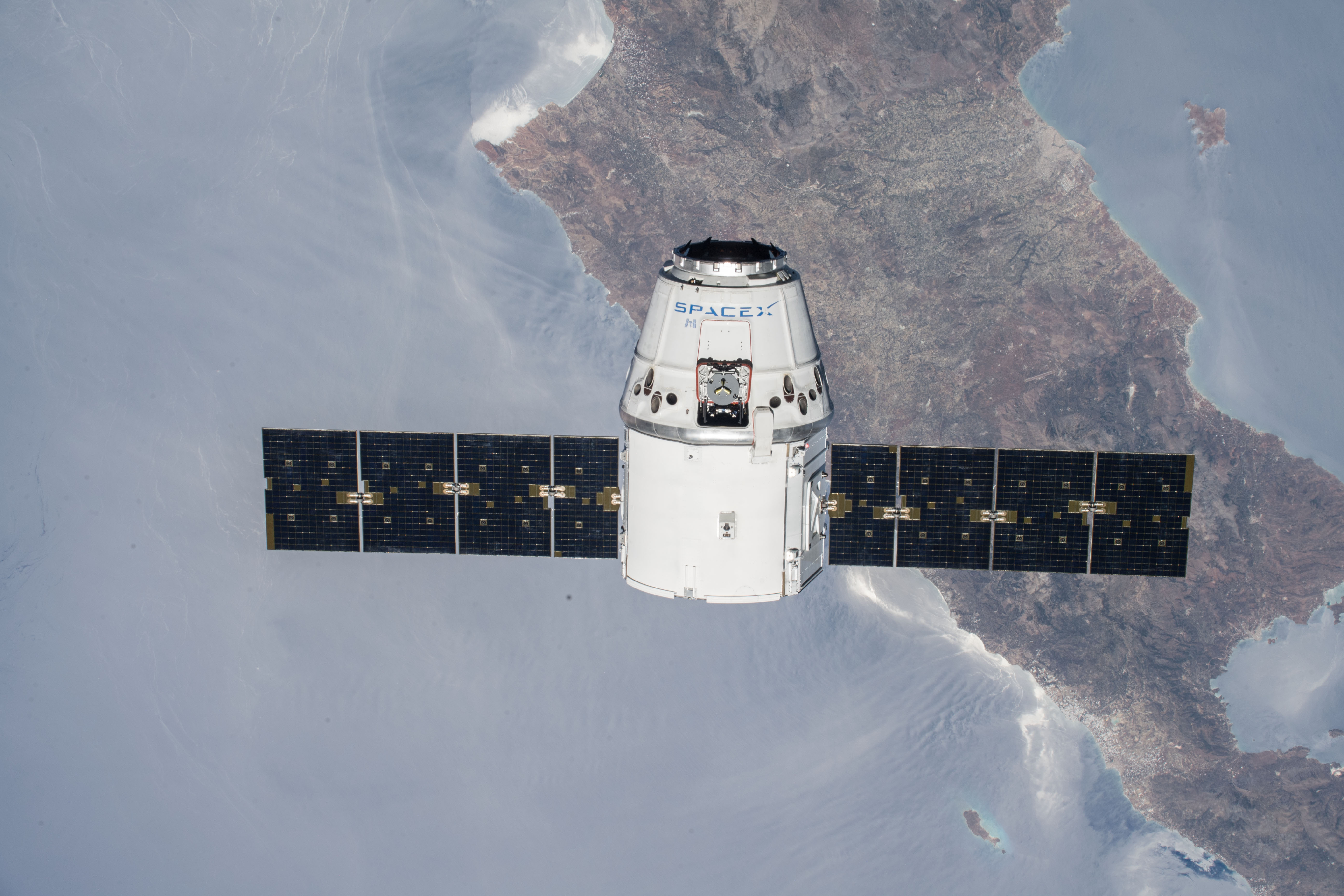 The SpaceX Dragon cargo craft is pictured approaching the International Space Station as both spacecraft were orbiting over the Greek island of Crete.